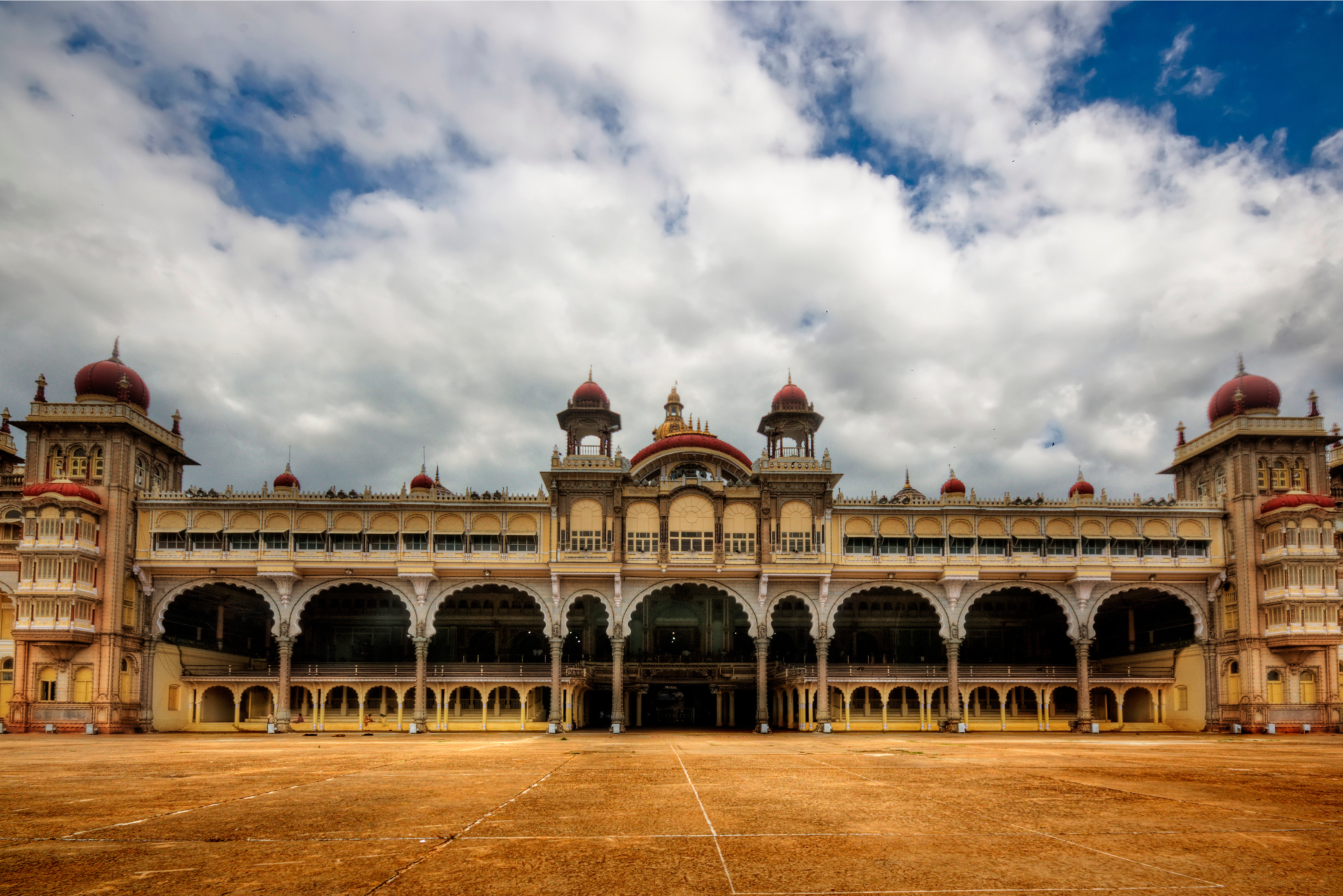 The incredible Mysore Palace in Karntaka, India